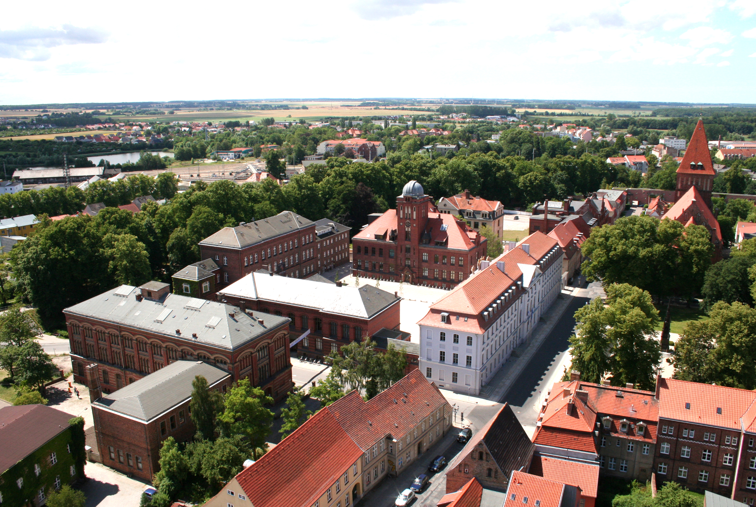 Ernst-Moritz-Arndt-Universität Greifswald in the town of Greifswald.